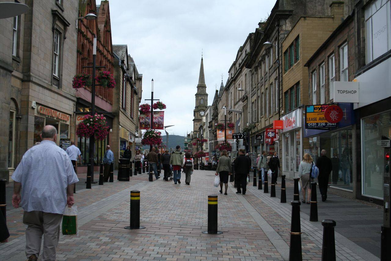 High Street, Inverness, Highland, Scotland